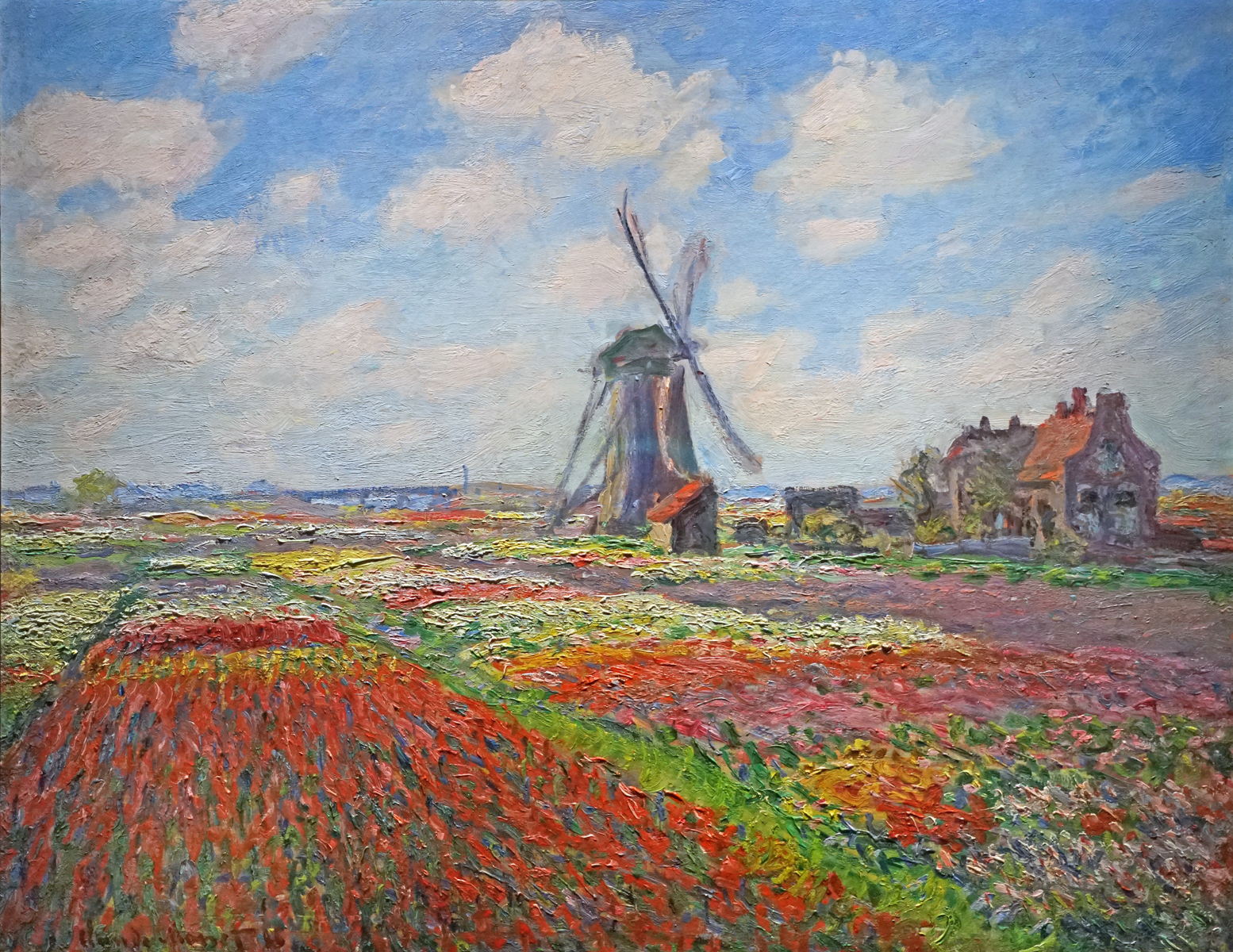 This is a painting dated 1886 by Claude Monet that sits in Musee d'Orsay in Paris.